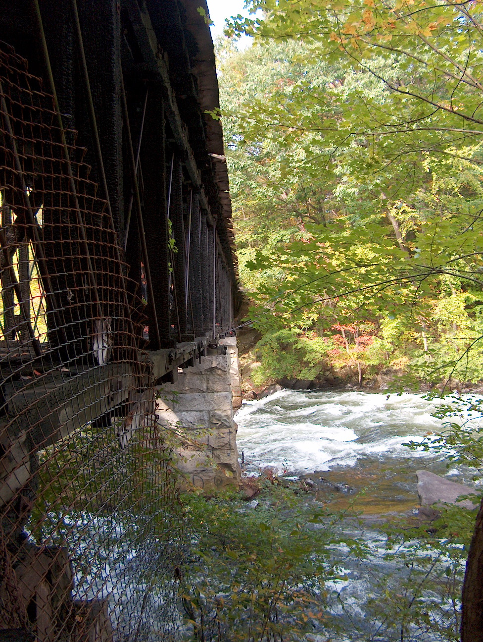 Sulphite Bridge over Winnipesaukee River in Franklin, USA.